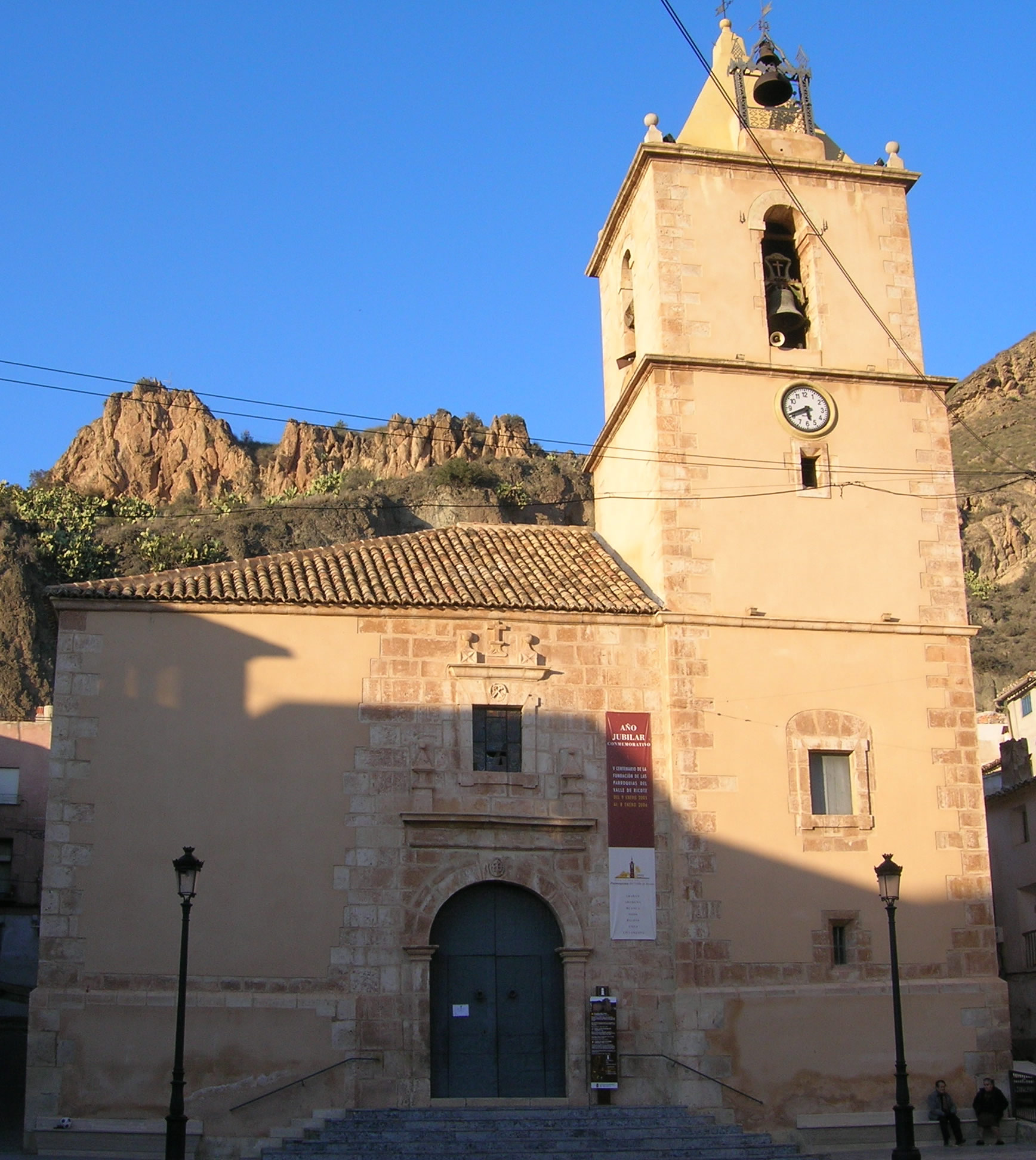 Church of st. John the Evangelist in Blanca, Murcia, Spain